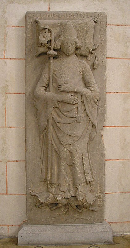 Augsburg Cathedral (Bavaria, Germany). Tombstone of Bishoph Friedrich Spät von Faimingen (died 1331) at the northern transept.